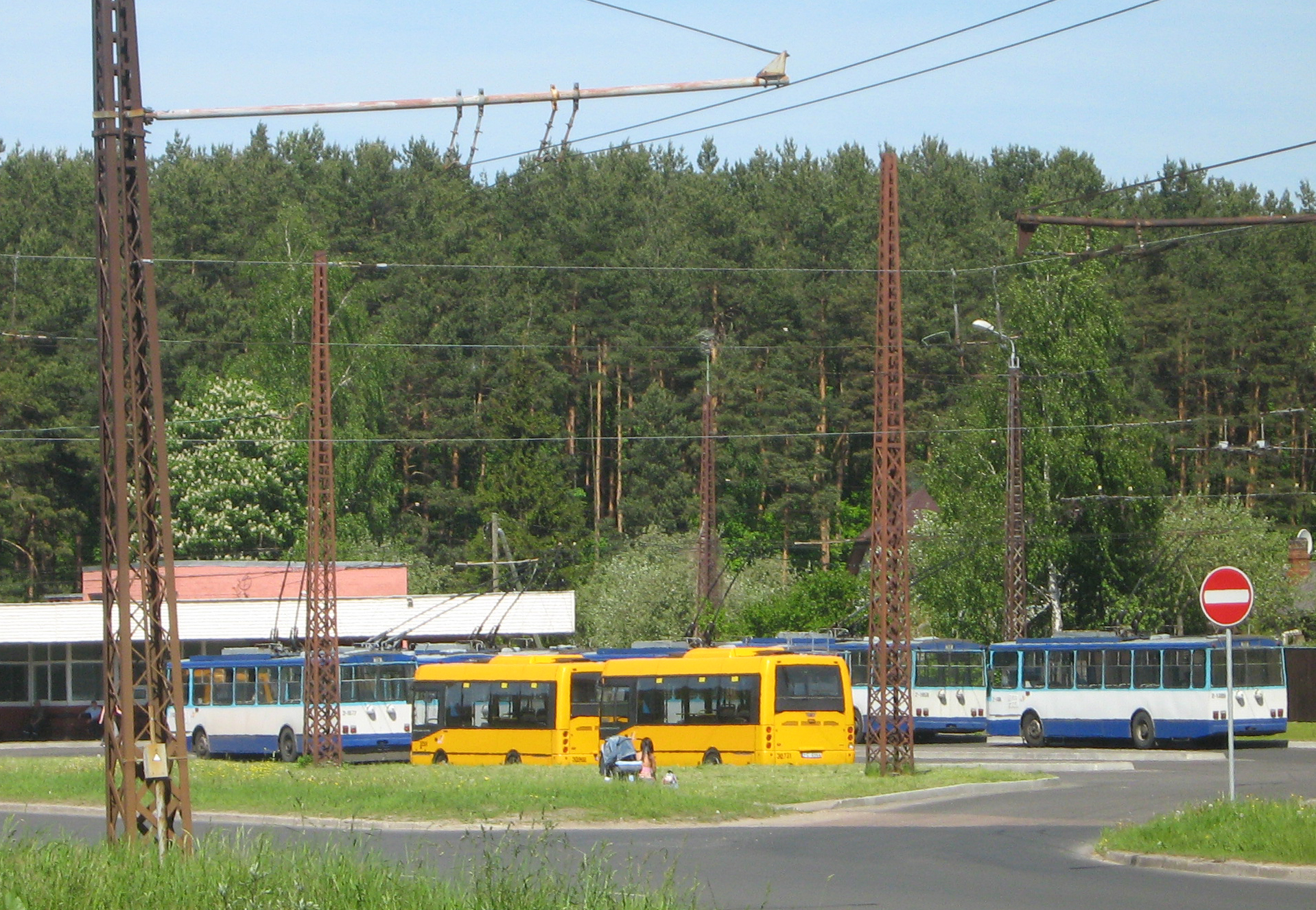 Terminal station of trolleybuses in Riga, Latvia.